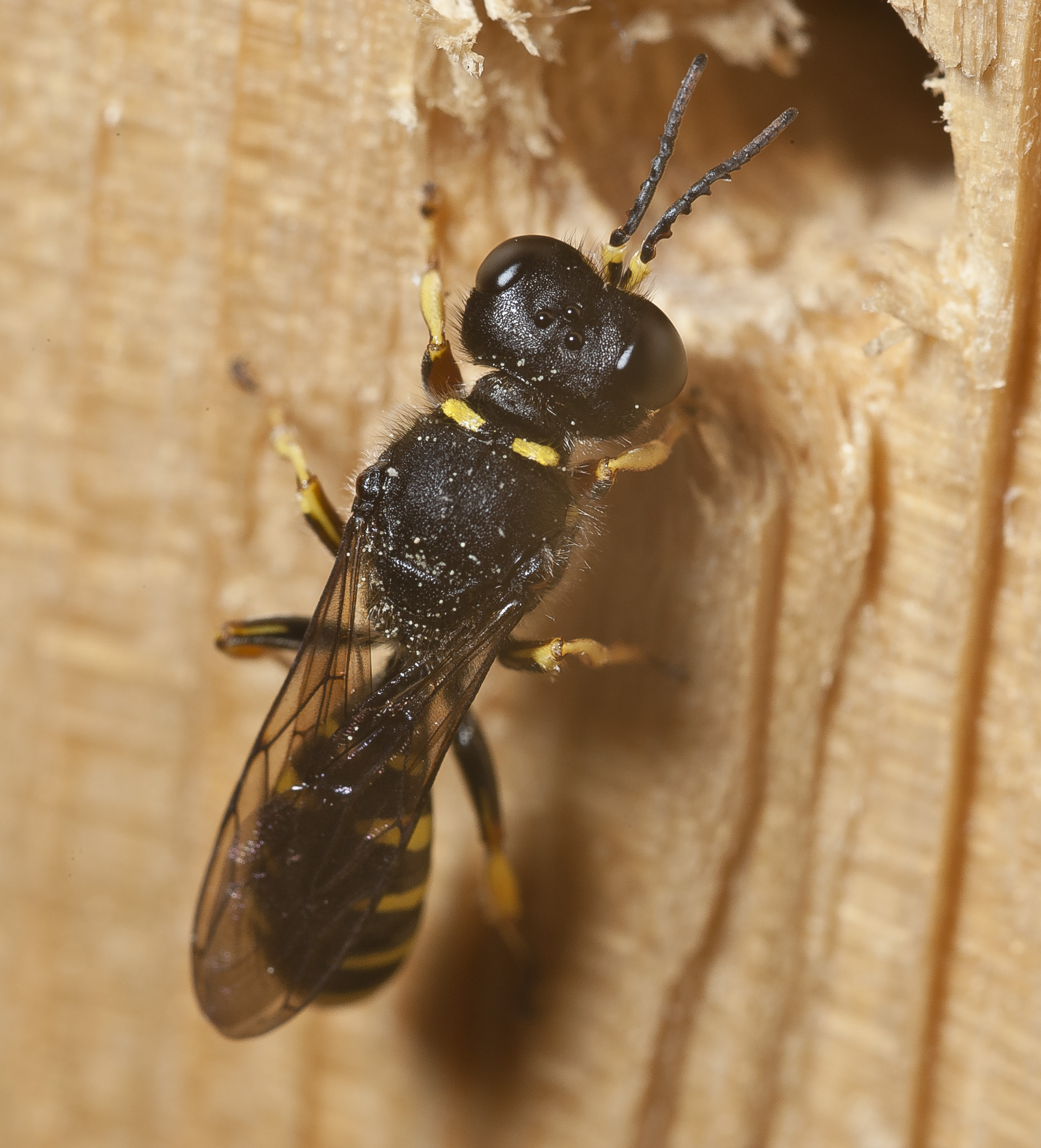 Ectemnius cavifrons, garden in Stuttgart, Germany. Thanks to the members of Entomologie.de for the identification.